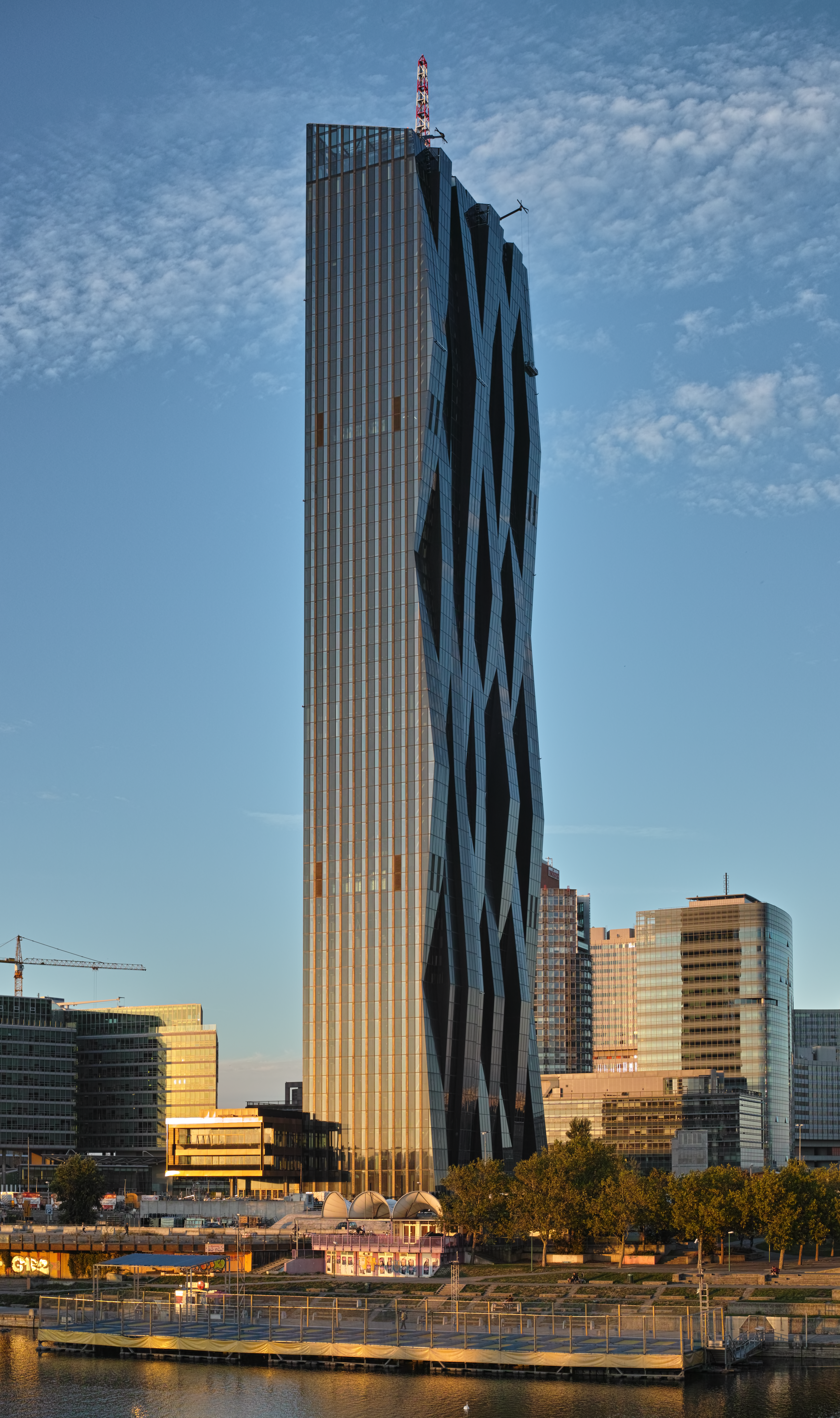 DC Tower 1 in Vienna, nearly completed from south-southwest on September 24, 2013 (perspective controlled).